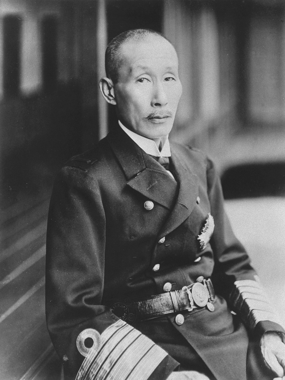 Portrait of Kato Tomosaburo (加藤友三郎, 1861 – 1923)